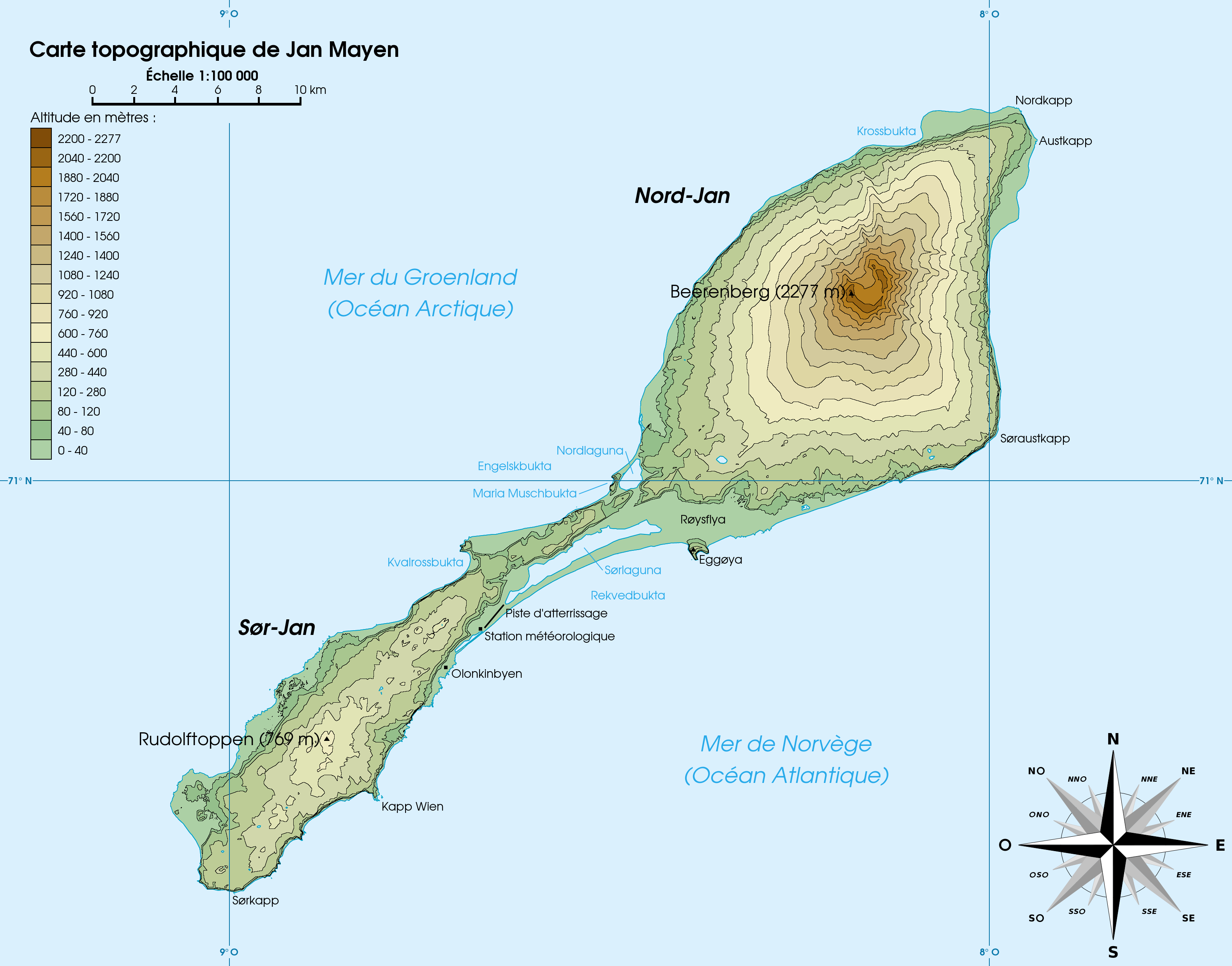 Topographic map of Jan Mayen, Norway